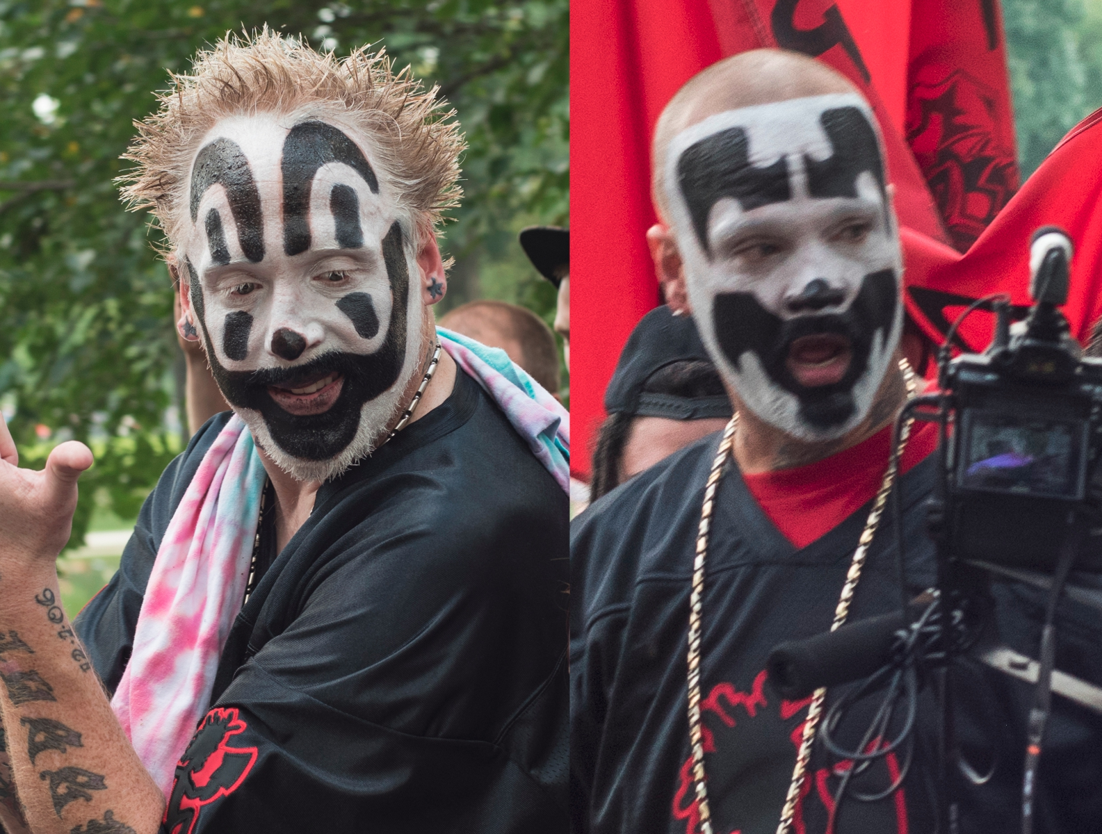 I do not own the photos. I, 100cellsman, only collaged them.